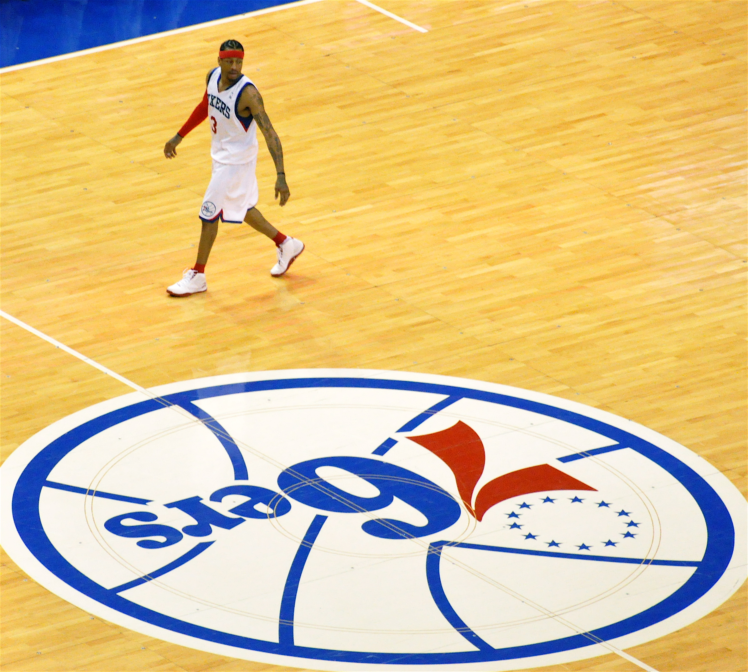 Allen iverson of the Philadelphia 76ers next to the team logo on the center circle at the Wachovia Center.